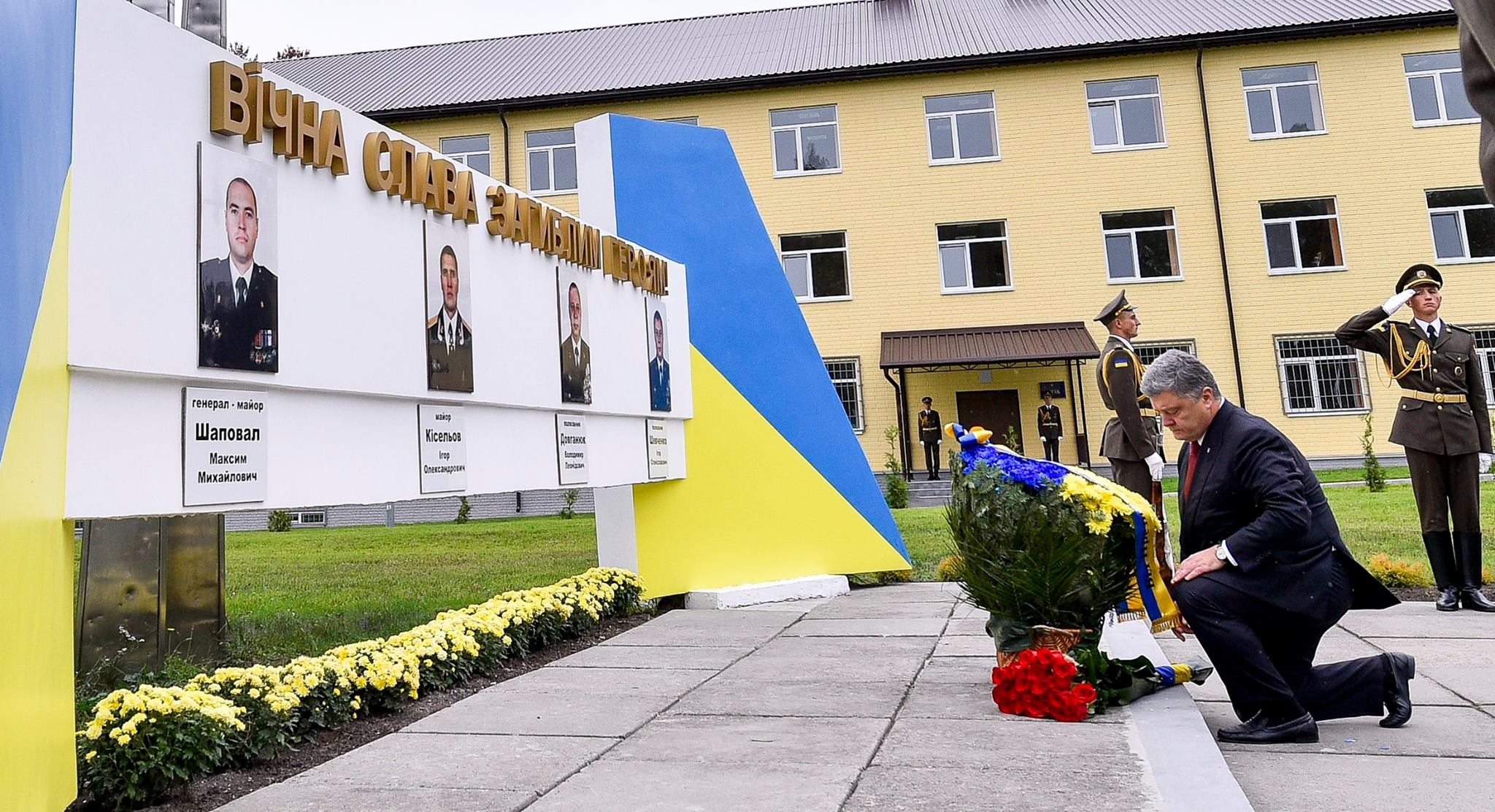 Chief Directorate of Intelligence 25th anniversary (Ukraine)